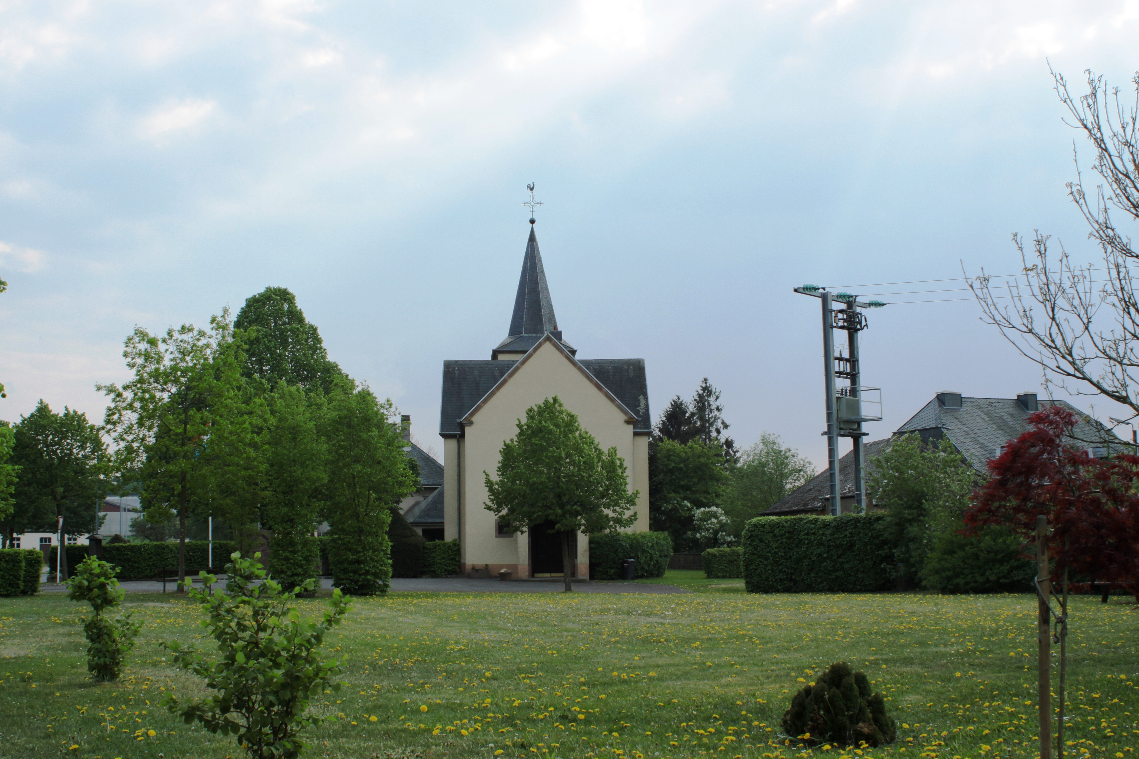 Church and place in Berlé